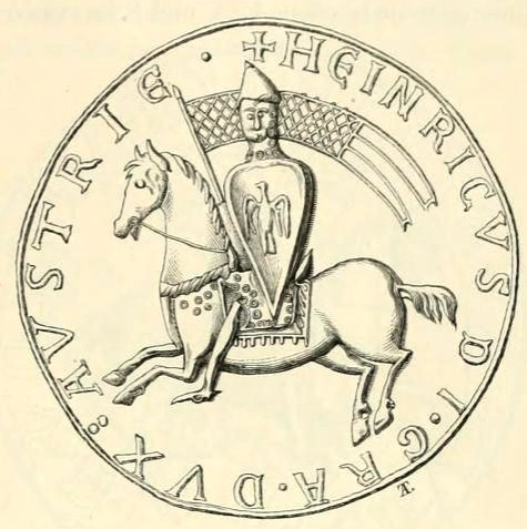 Henry II, Duke of Austria